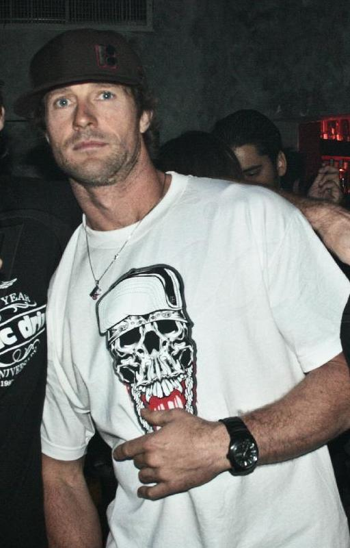 Pat Duffy, Danny Way and Jereme Rogers